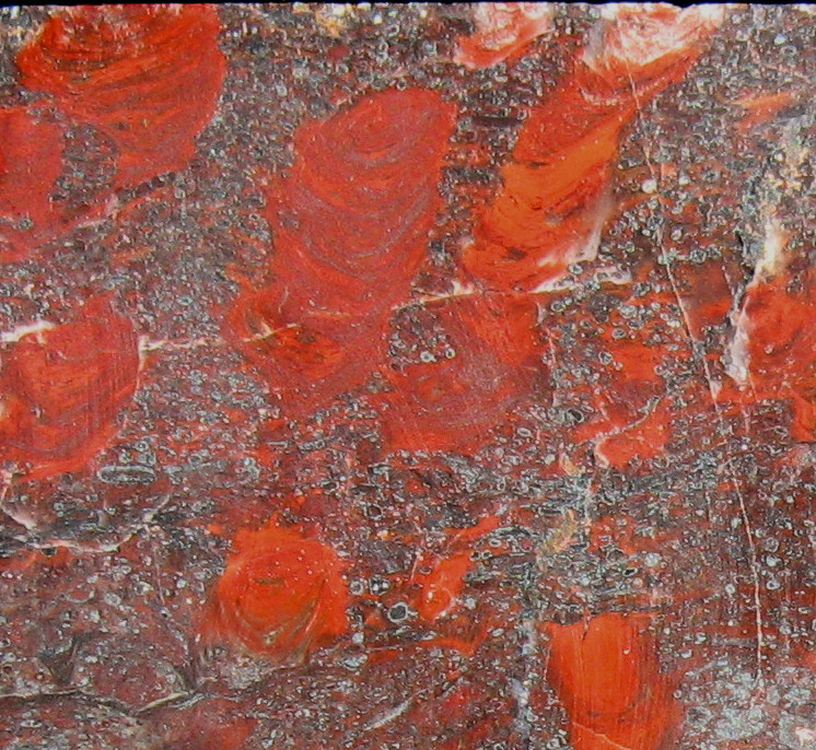 A 4.2cm by 3.3cm slabbed section of stone with fossil Stromatolites. Collenia undosa ~2110 million years old, Huronian, Biwabik iron Formation, Mary Ellen Minet, Mesabi Range, St. Louis Co., Minnesota, USA